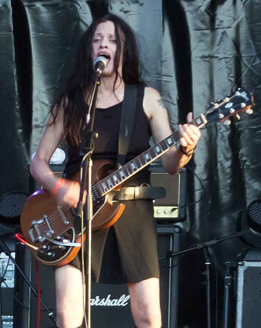 Kat Bjelland performing with Babes in Toyland, 2015